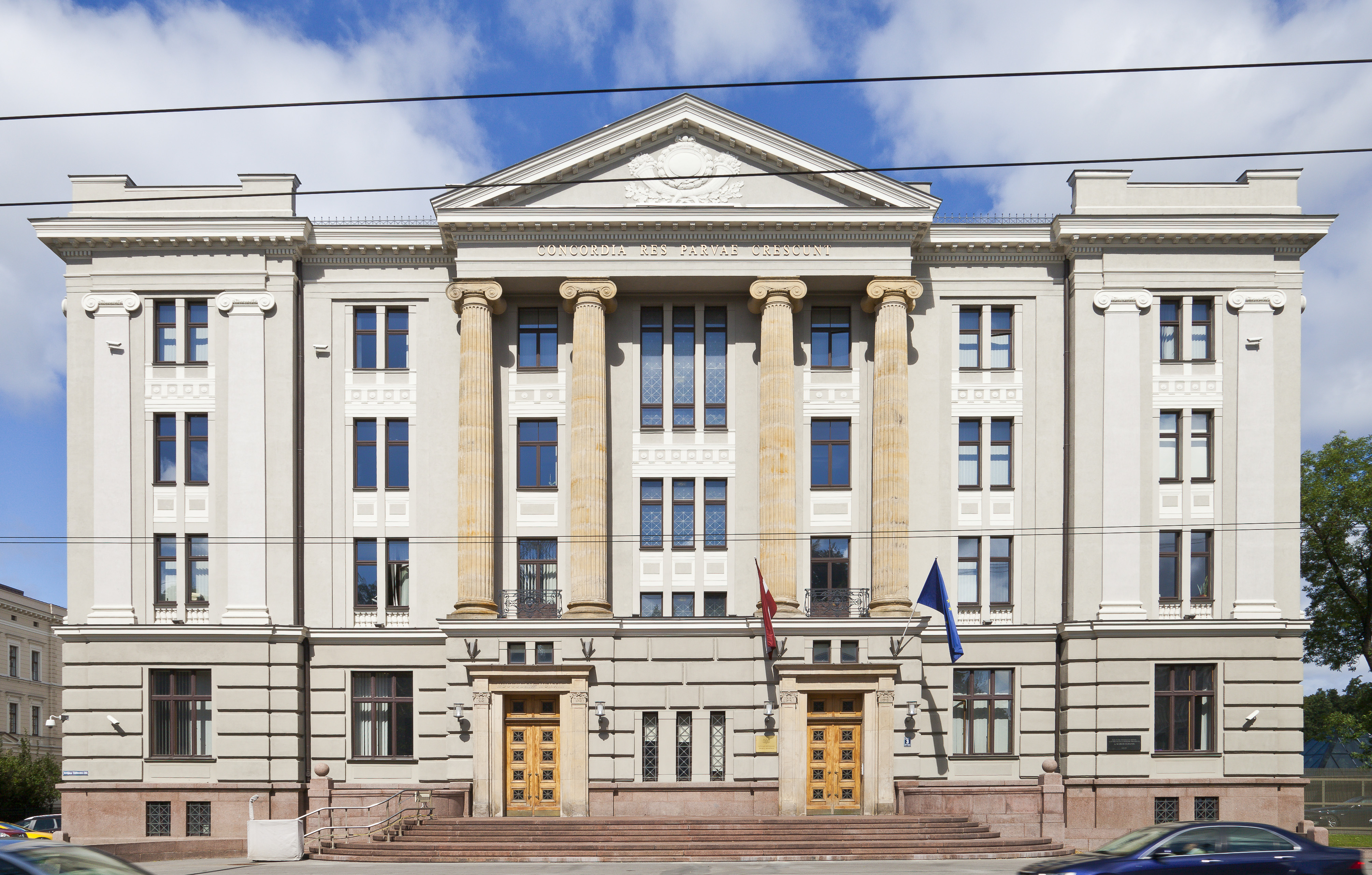 Foreign Ministery, Riga, Latvia